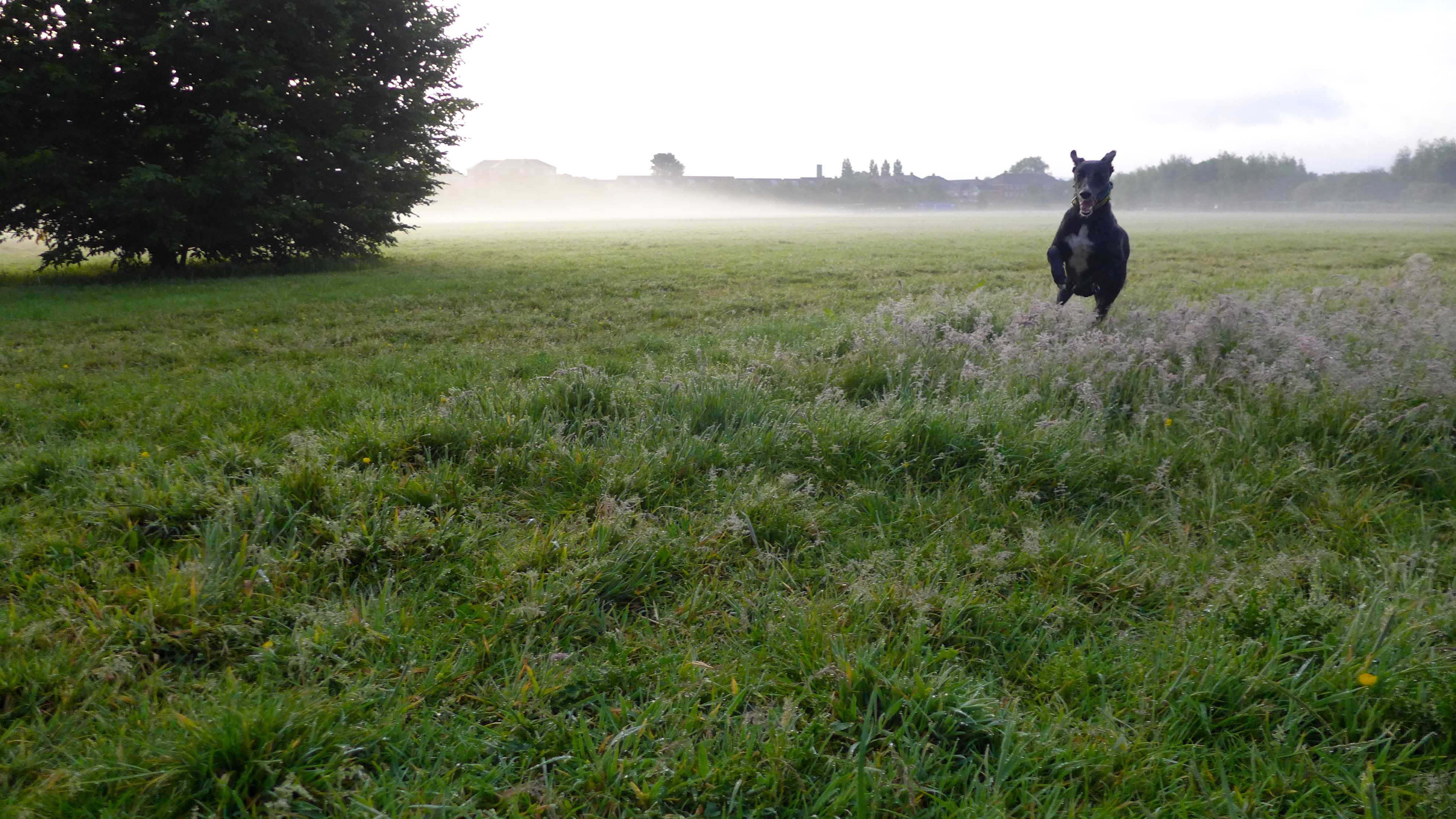 Pepe, rescue lurcher enjoying a run in Sanatorium Park at sunrise. June 2020. Taken to the South (Ely River end) of the green open space that accommodates the children's park and basketball section.